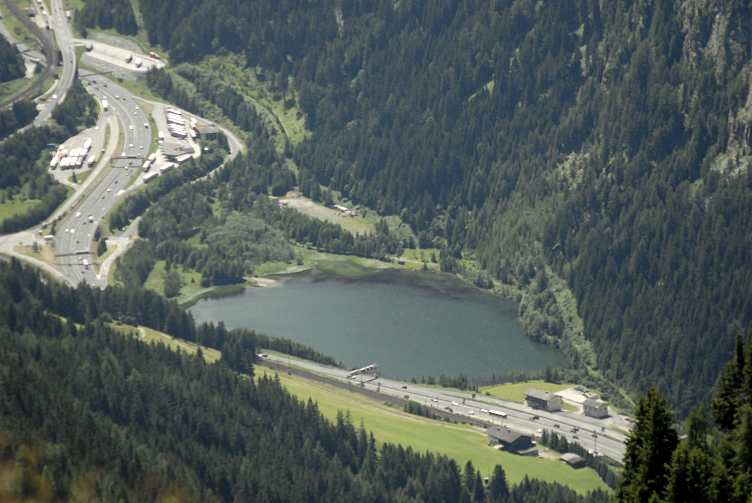 Brennersee from Padauner Kogel This media shows the natural monument in the Tyrol with the ID ND_3_18.